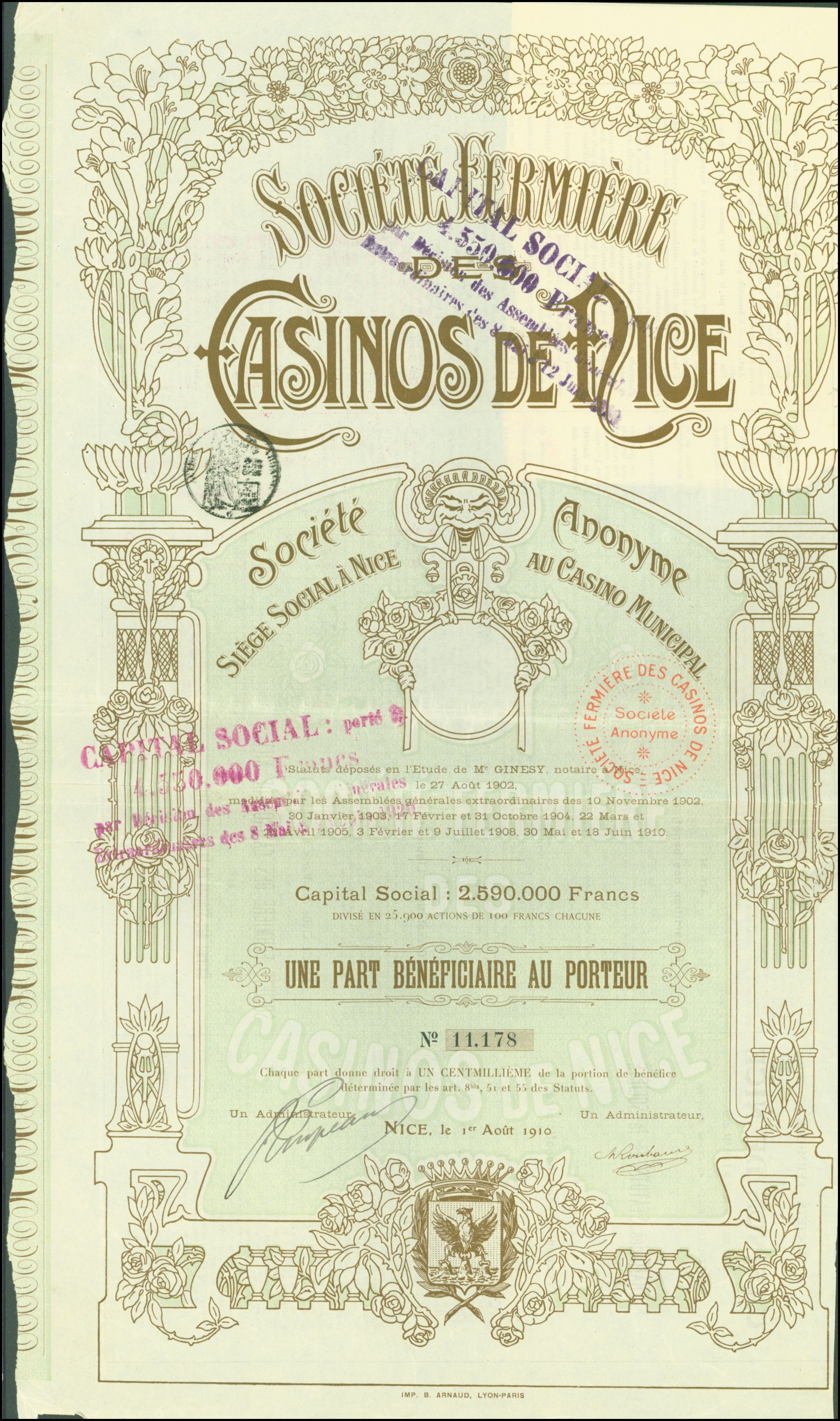 Part bénéficiaire of the Société Fermière des Casinos de Nice, issued 1. August 1910